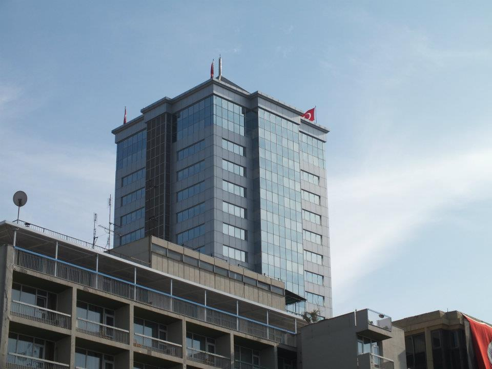 Heris Tower in Izmir, Turkey.